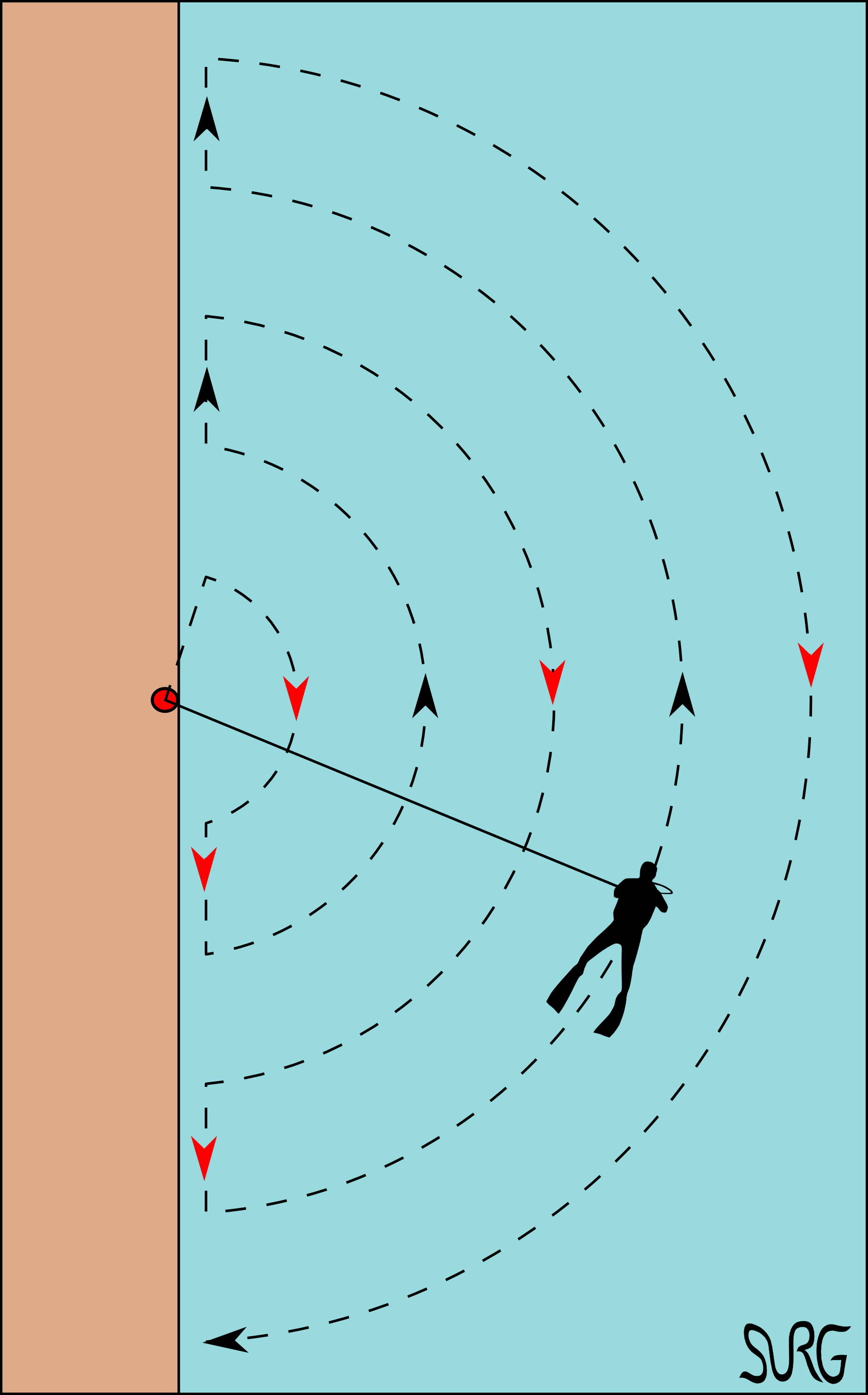 Illustration of underwater pendulum search pattern